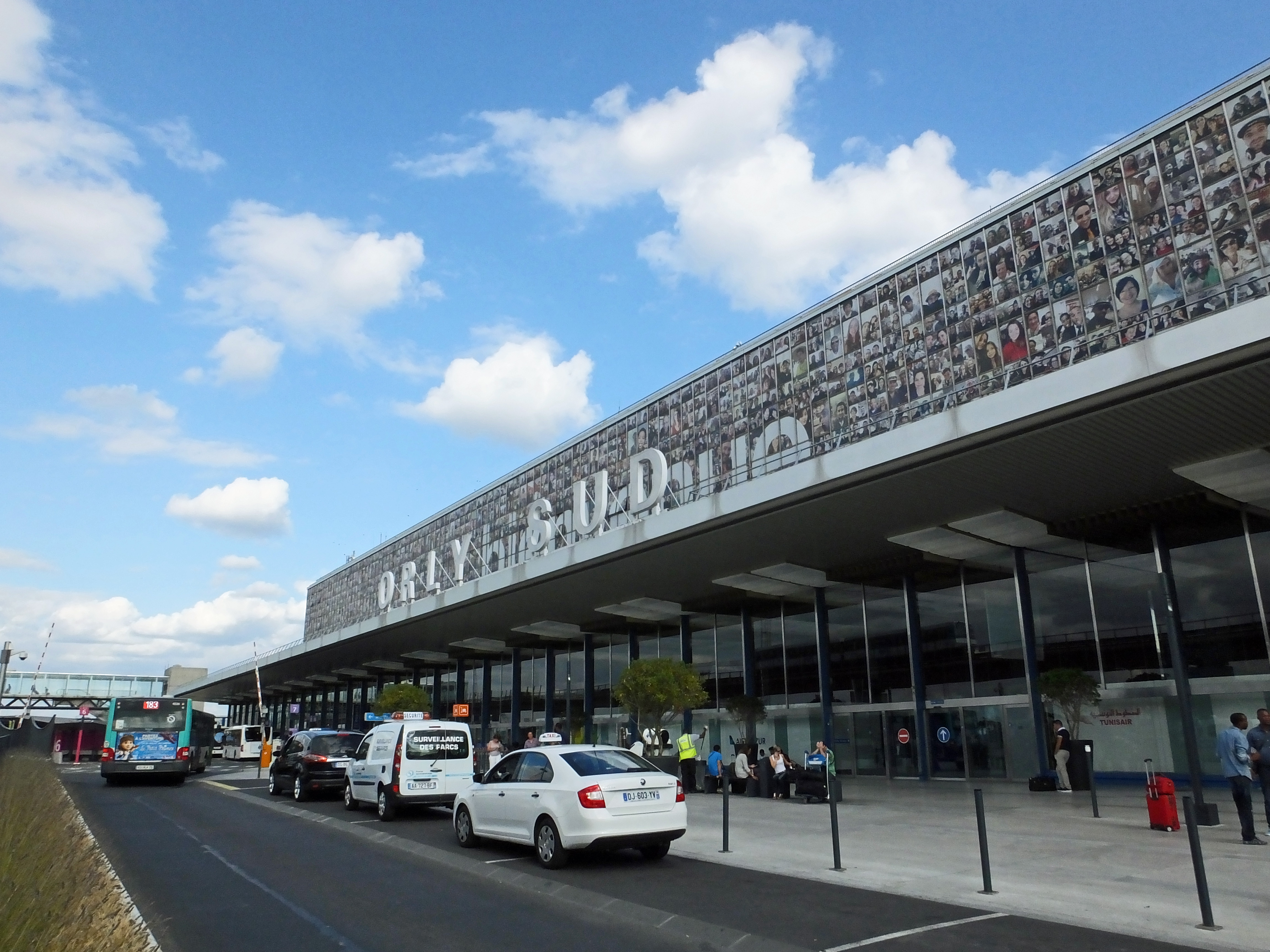 The South Terminal at Orly Airport, outside Paris, France. Hundres of photographs of people and the word Bienvenue (Welcome) covers the facade.